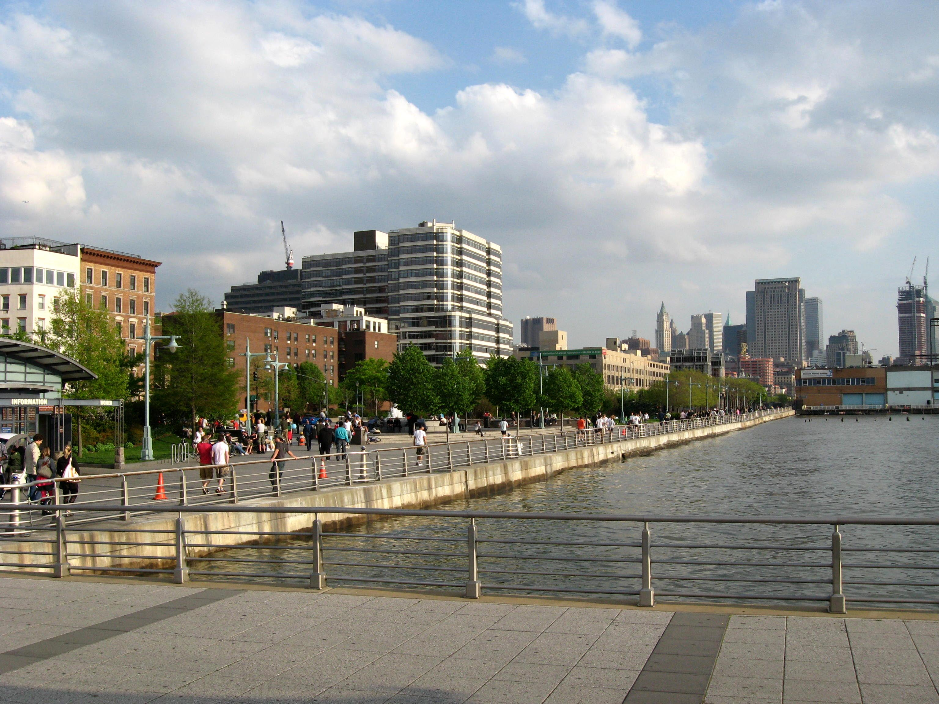 Hudson River Park. Looking south from Christopher Street pier to Pier 40 on a sunny spring late afternoon.